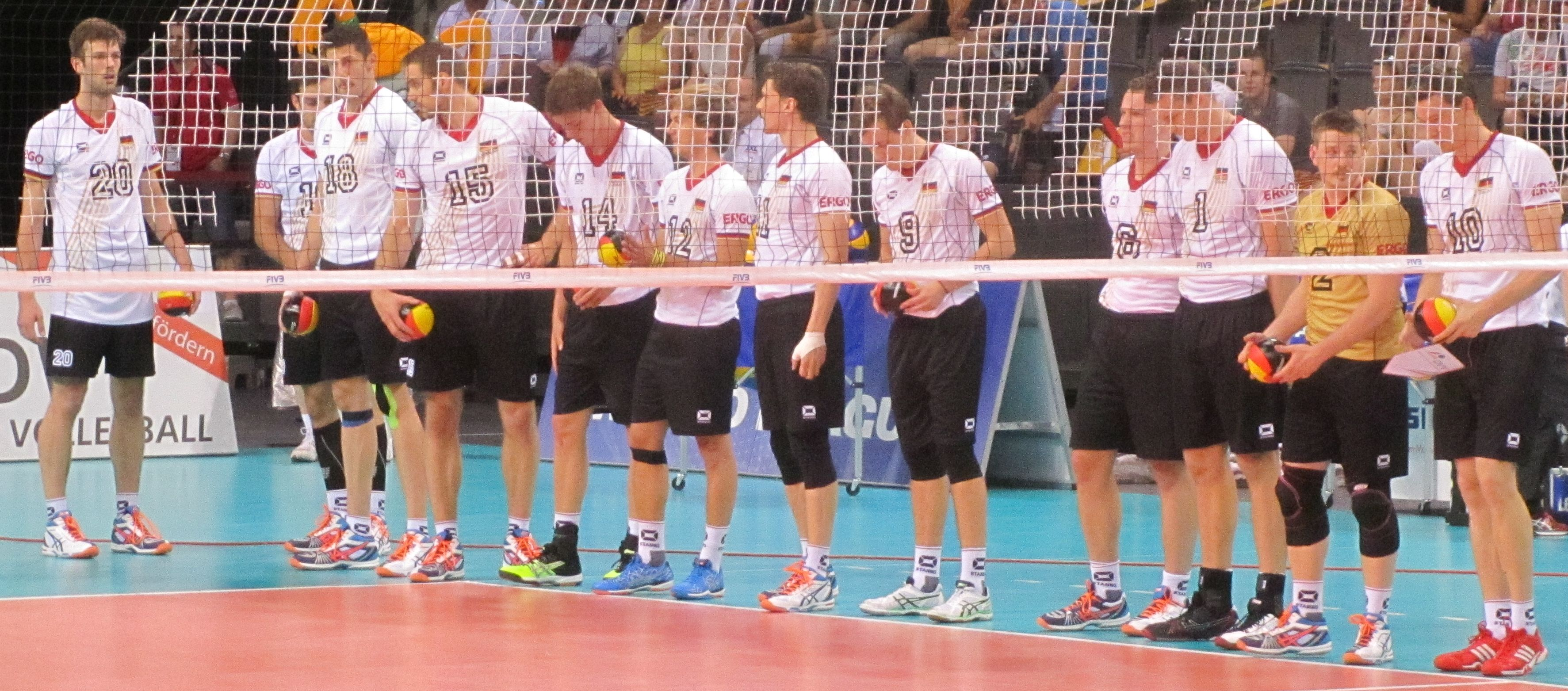 the German men's national volleyball team before the World League match versus France in Stuttgart